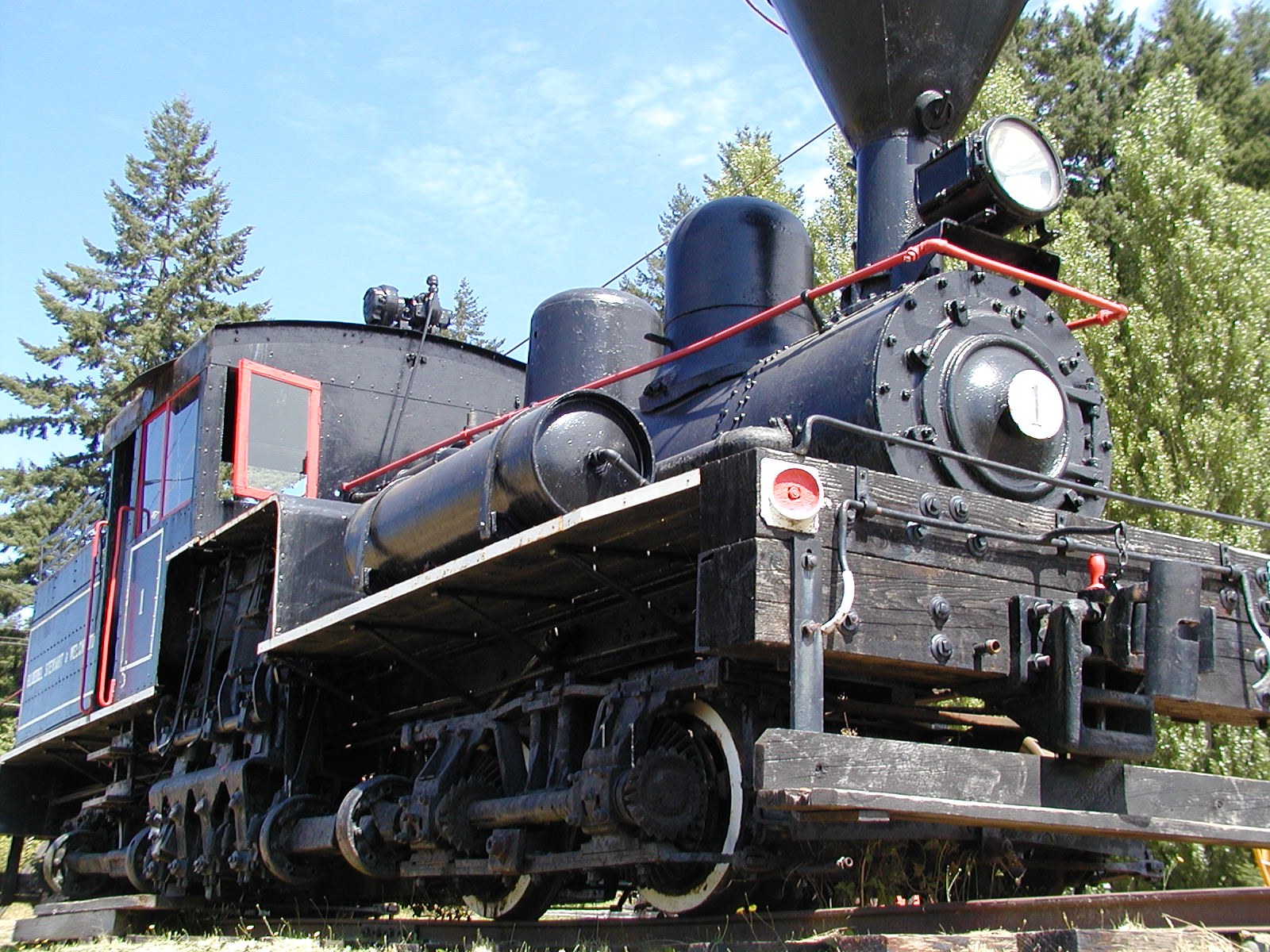 shay locomotive, Alberni Pacific Railway, Vancouver Island